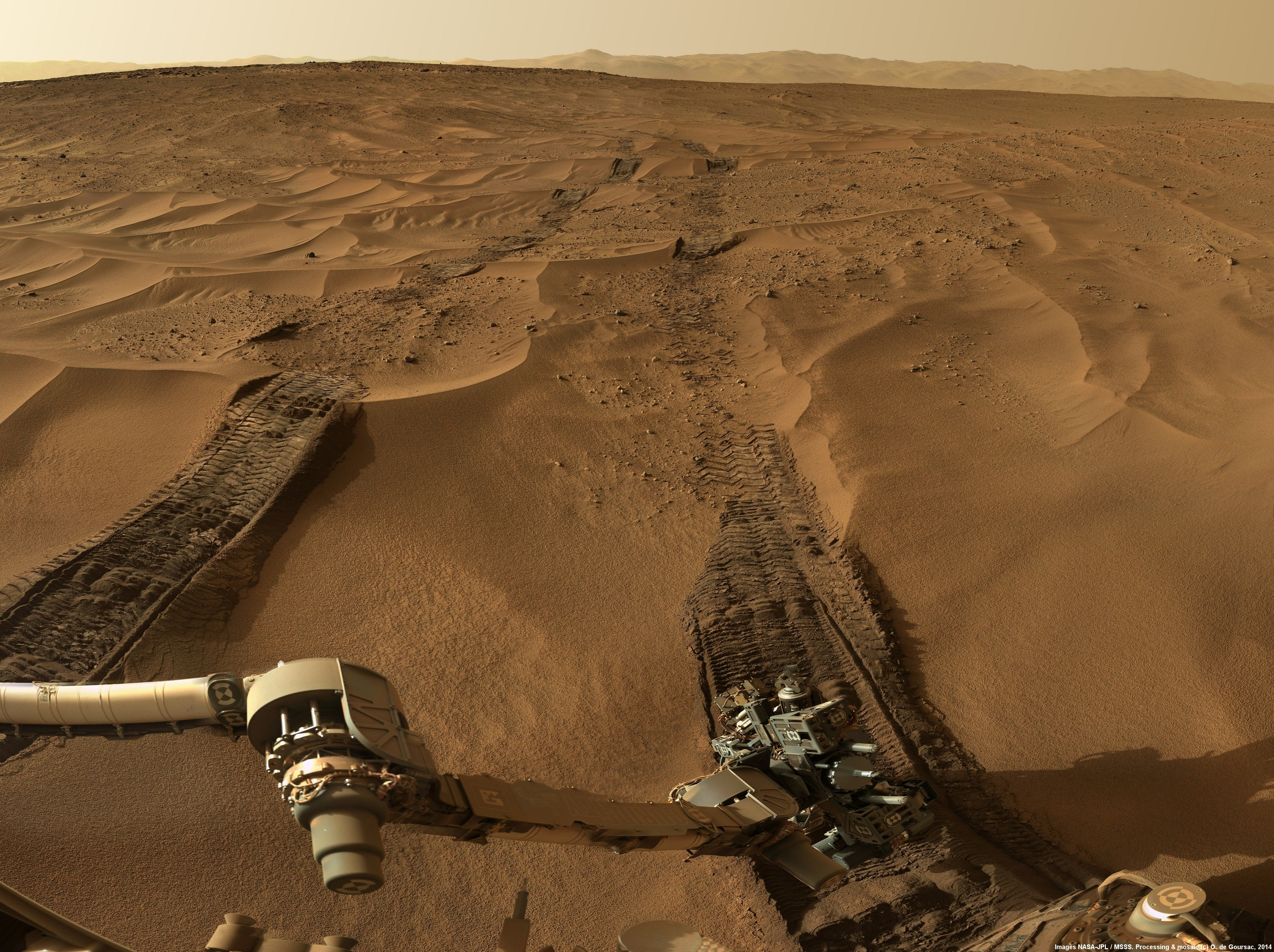 Mosaic of images taken late afternoon by the Curiosity Rover on Mars on its mission Sol 673 (29 June 2014) and showing a field of small sand dunes